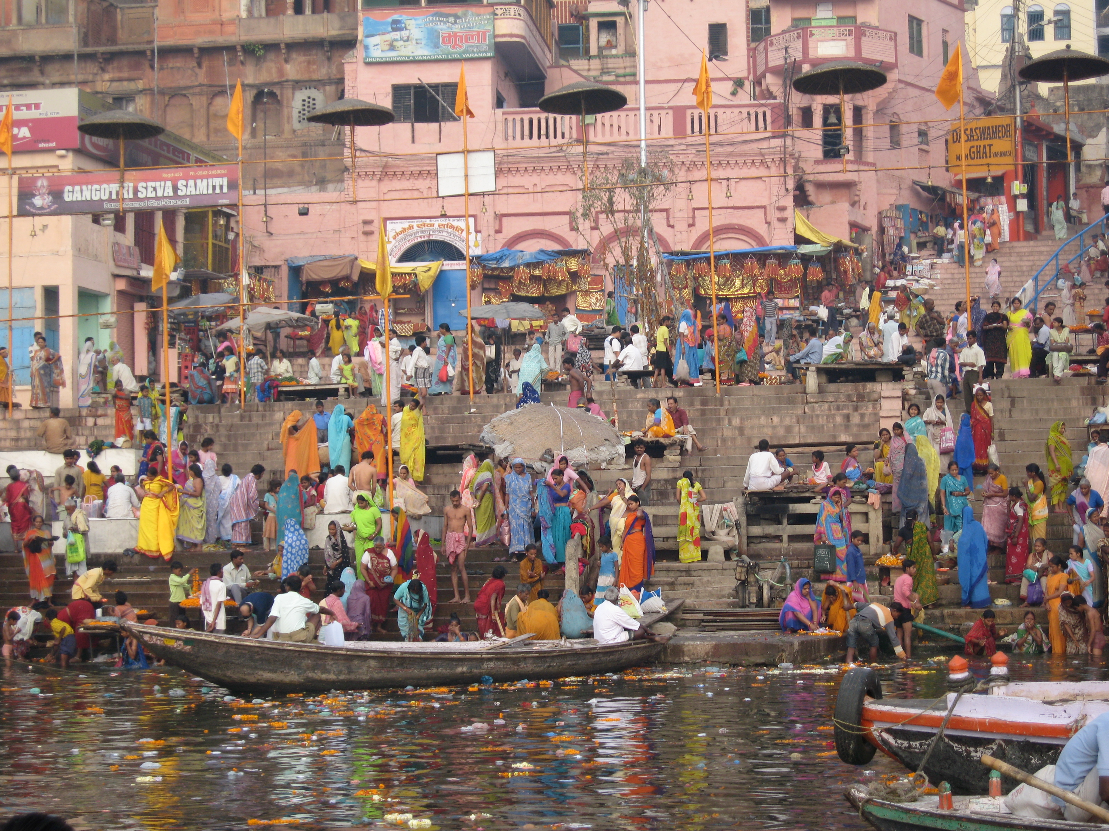 Ganges river at Varanasi in India 2008